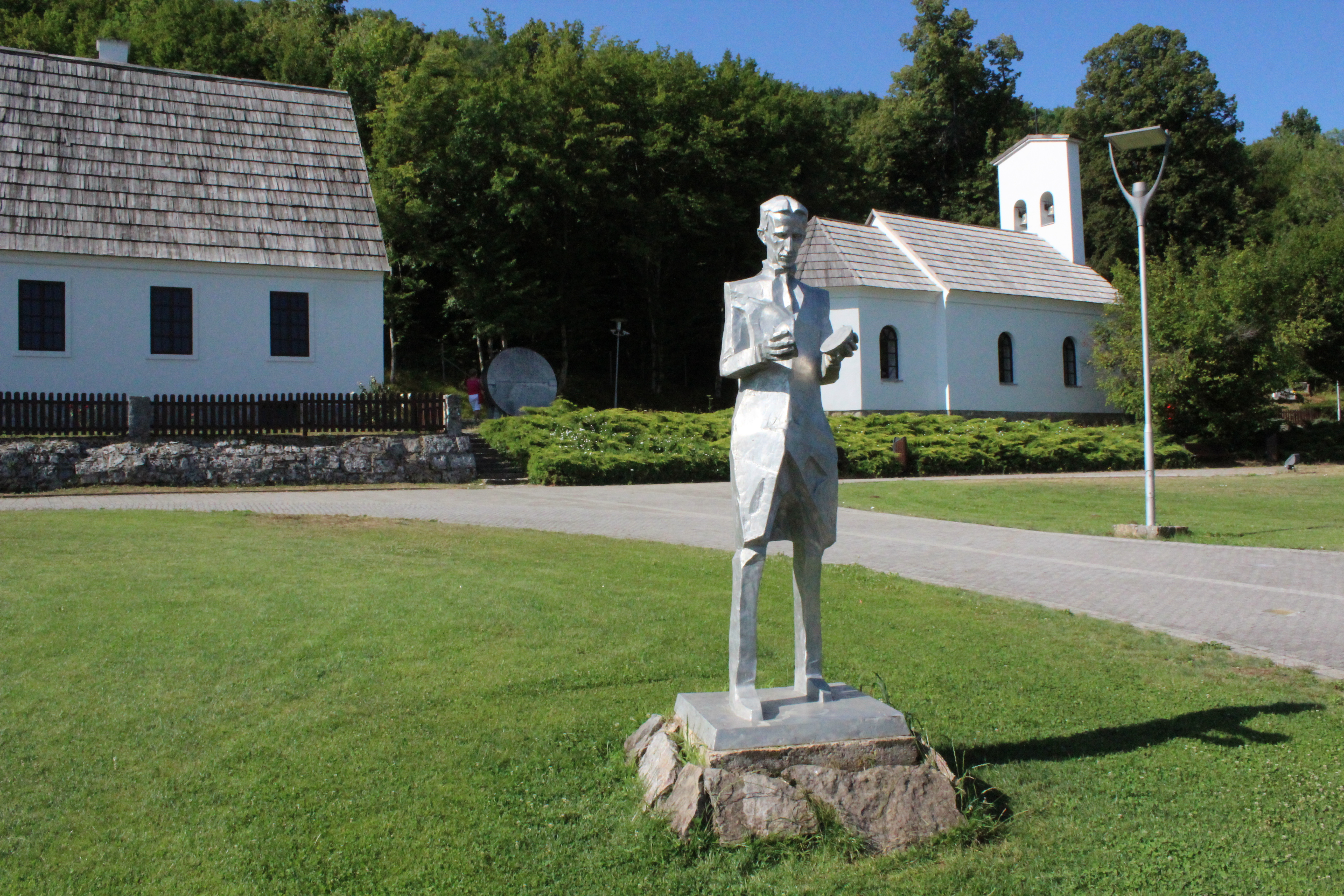 Statue of Tesla in Nikola Tesla Memorial Center (Smiljan, Croatia). Created by Mile Blažević, 2006. In the background rebuilt birth house of Tesla and Serbian church of the village.